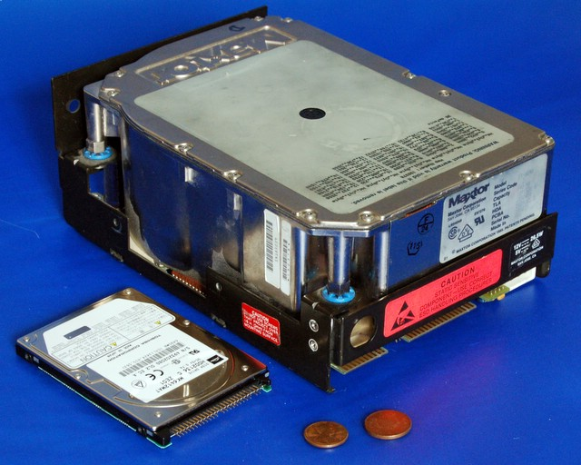 The large drive is a 5.25" full-height 111 MB MFM drive. The smaller drive is a 2.5" 6495 MB IDE drive. The coins at bottom are a US cent (left, 19 mm) and a UK penny for size comparison.